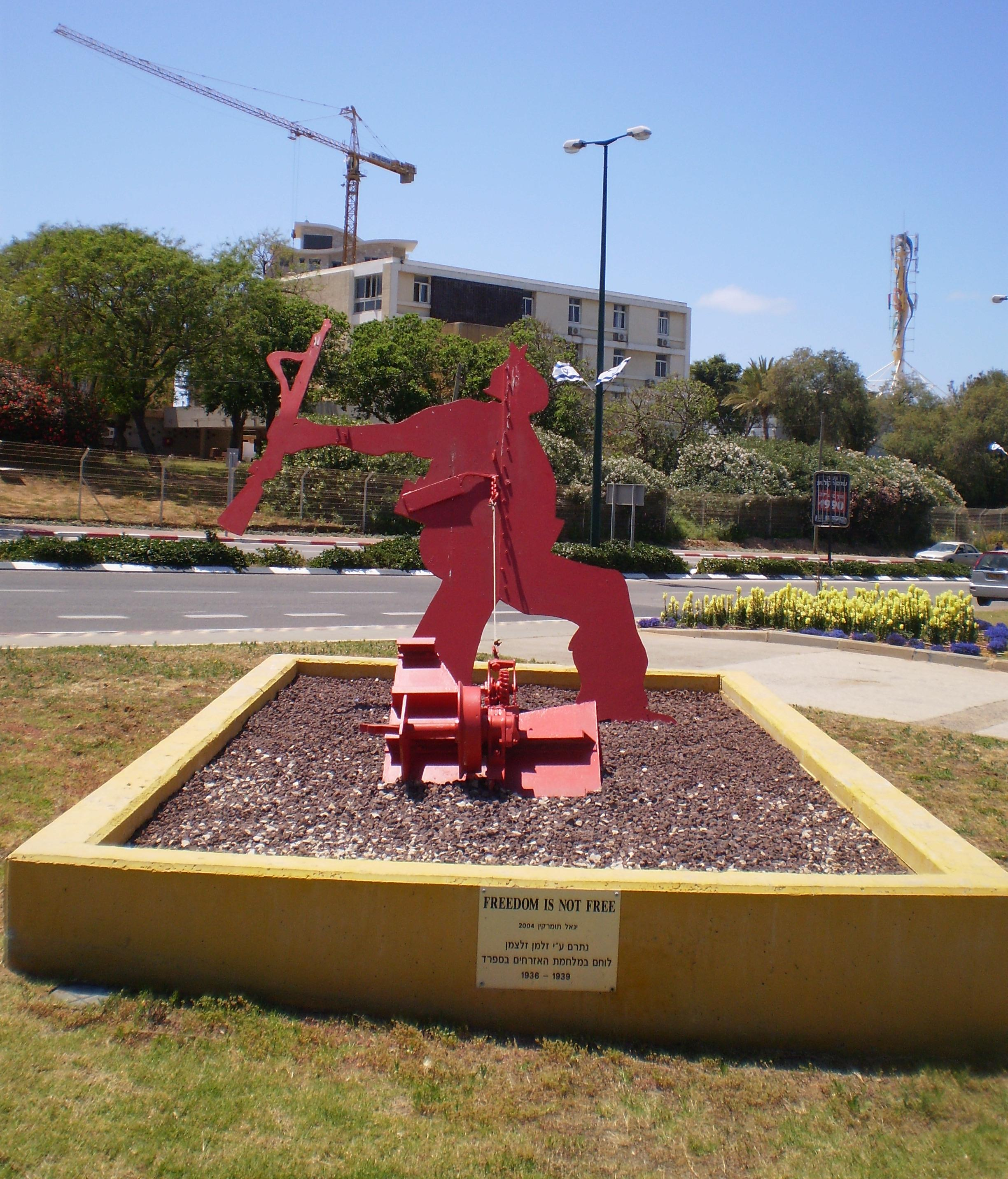 "Freedom is not Free", a sculpture by Yigal Tumarkin, after "Death of a Loyalist Soldier" by Robert Capa. Netanya, Israel.